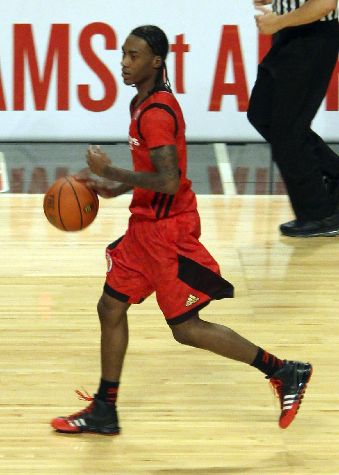 Anthony Barber dribbling upcourt at the w:2013 McDonald's All-American Boys Game